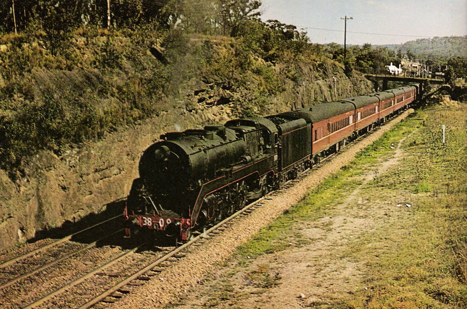 Private amateur photo with no copyright. The Sydney - Newcastle Flyer leaves Fassifern in 1967.